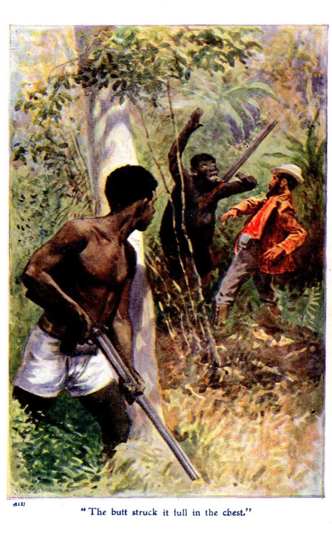 Illustrated panel for R. M. Ballantyne's The Gorilla Hunters. Although the uploader at the Internet Archive claims copyright on this work, under US copyright law (and the Wikimedia Foundation's position) faithful reproductions of two dimensional public domain works are automatically PD.